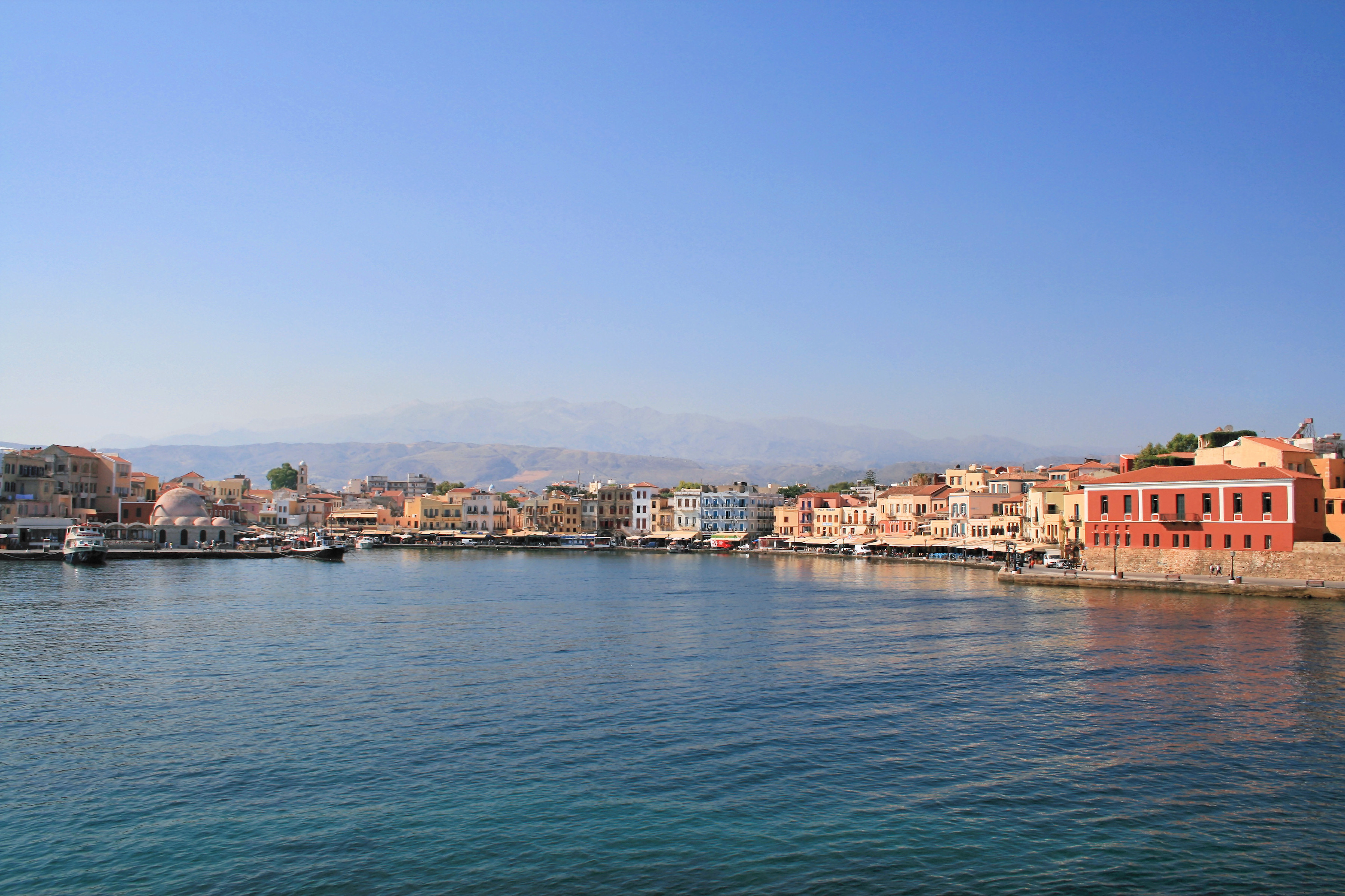 Chania on the island of Crete - View from lighthouse to the south onto the venetian harbor